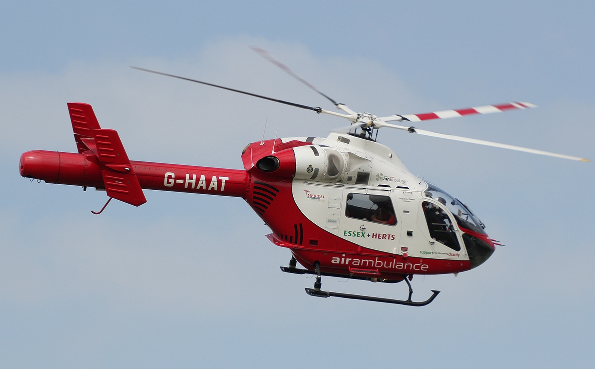 G-HAAT MD Helicopters MD-900 Explorer @ North Weald 18/06/2017